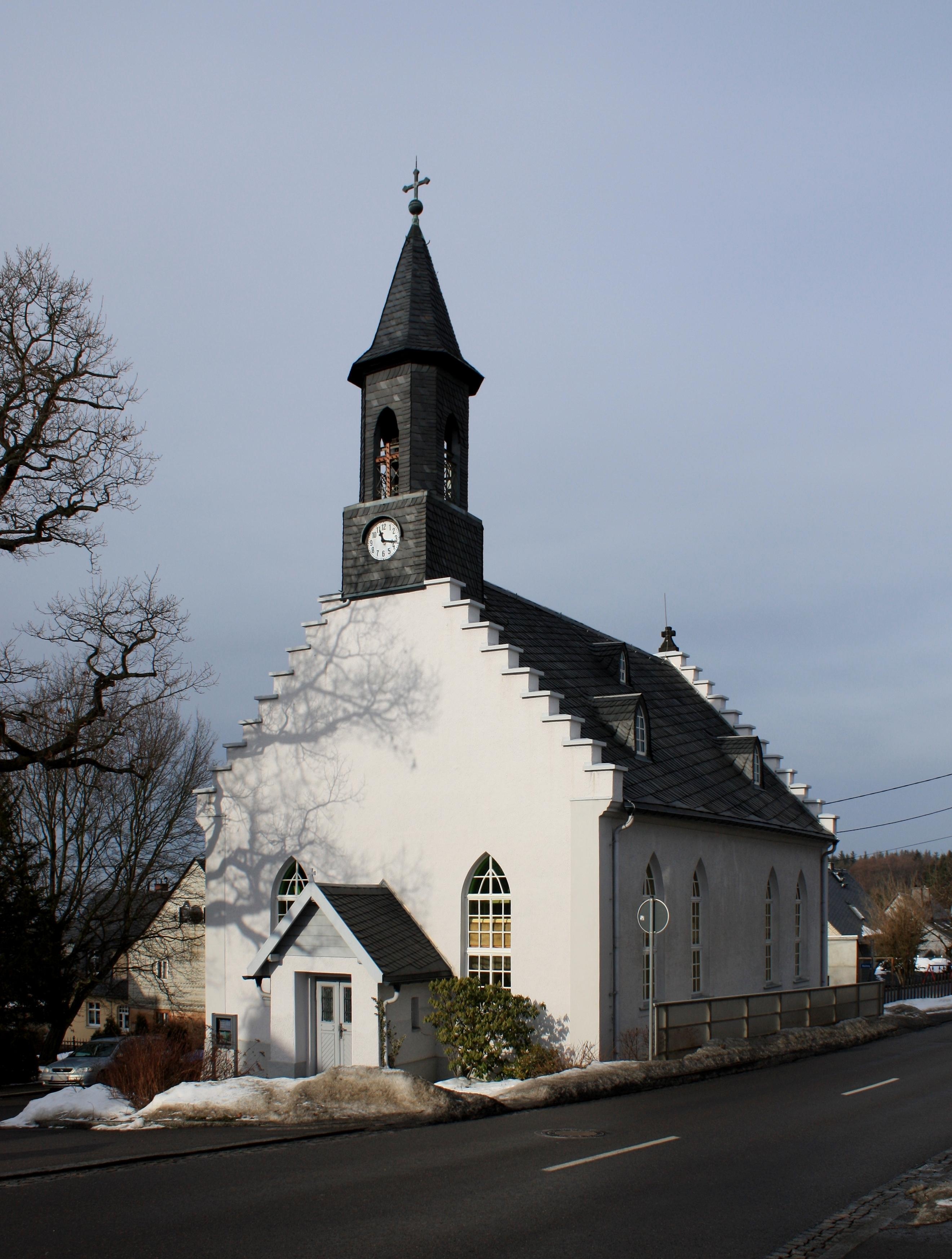 Oberpfannenstiel Church, Bernsbach